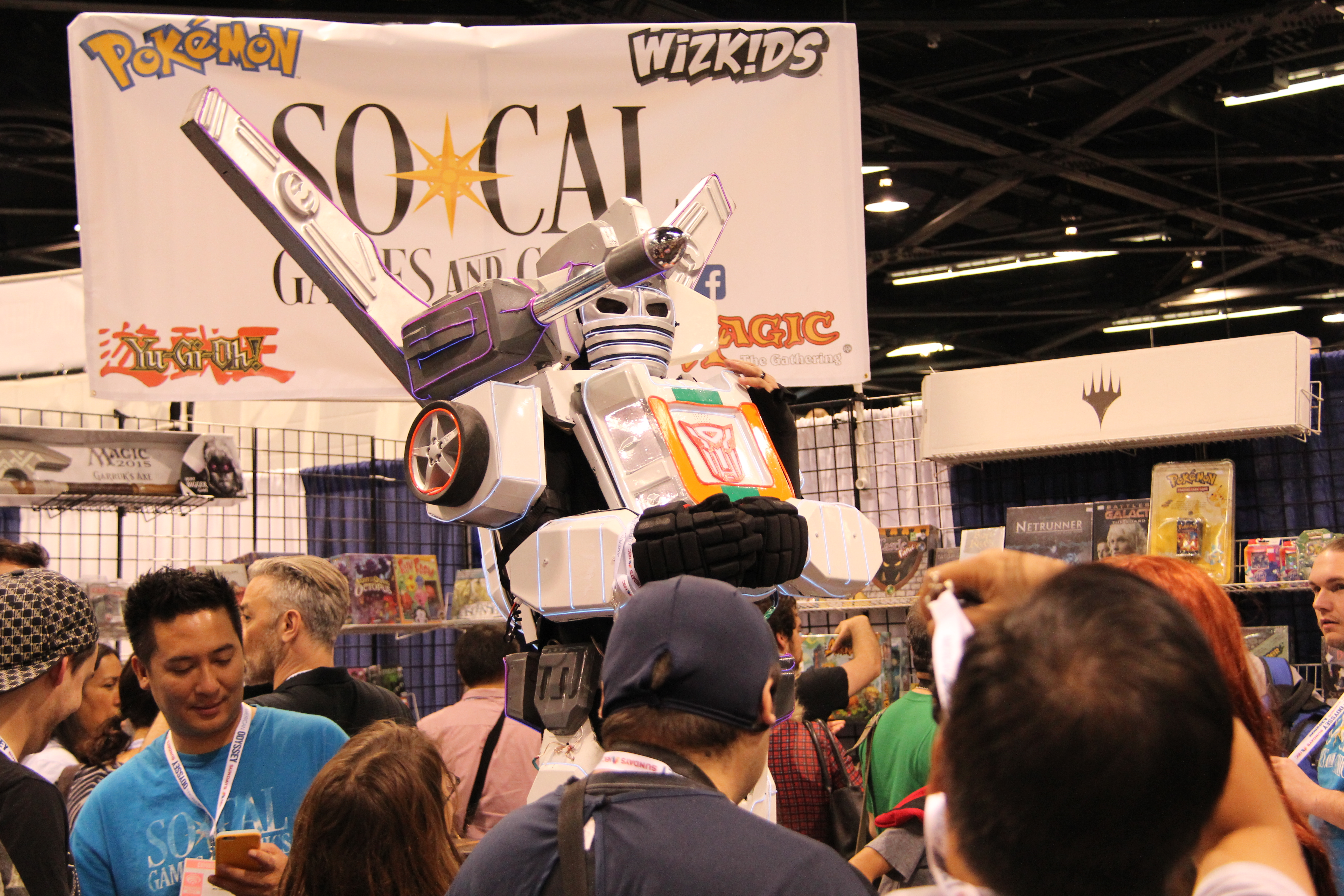 A cosplay of Wheeljack from Transformers